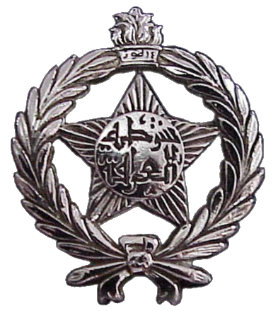 Logo of Aliyat Al-Shorta from 1962 to 1974.